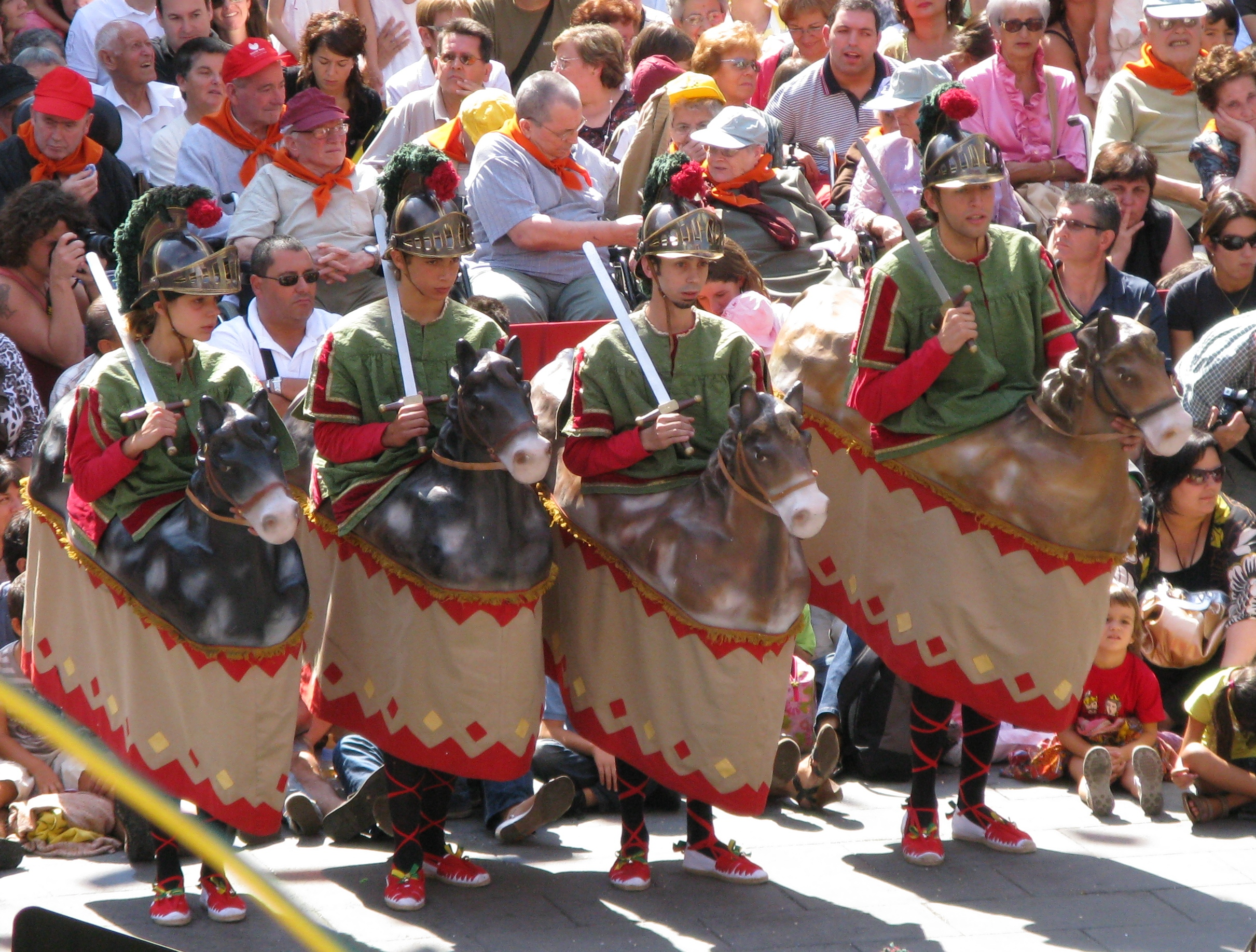 Els Cavallets (little horses) during the dance of the giants at 07.09.2008 (Great festival of Olot 2008 at the Placa Major)